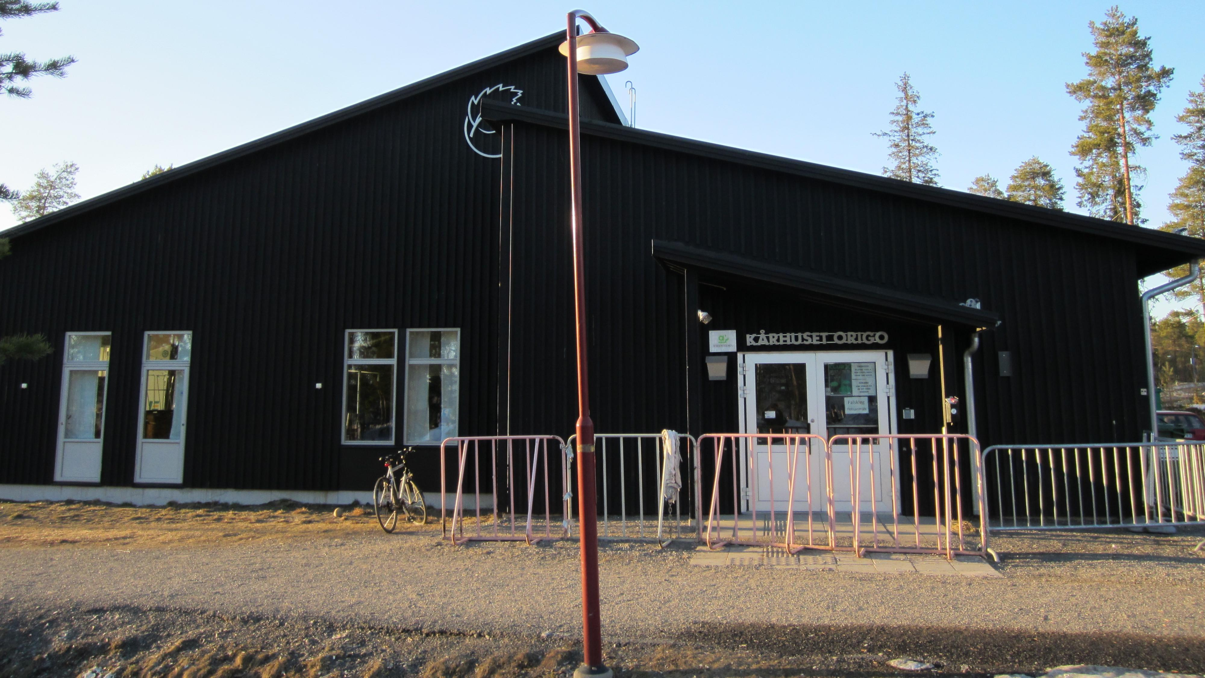 Students' union "Orion" in Umeå, Sweden.